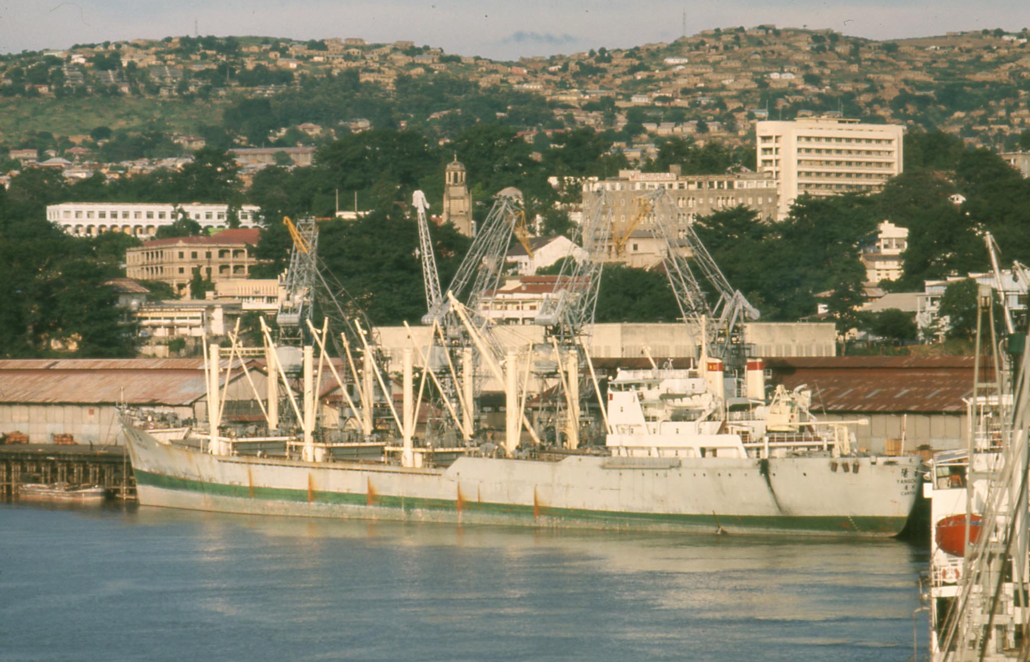 View of the port of Matadi from the Congo River in 1965.